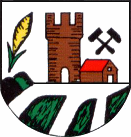 Coat of Arms of Oechsen First upload in de-wp: Thomasjoerg (16:16, 12. Apr. 2006)